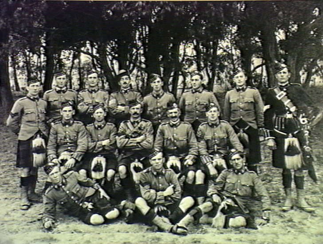 Photograph of 52nd Australian Infantry Battalion (Victorian Scottish Regiment), a militia unit of the Australian Army. Members seen here wearing distinctive Scottish dress in Melbourne, Victoria